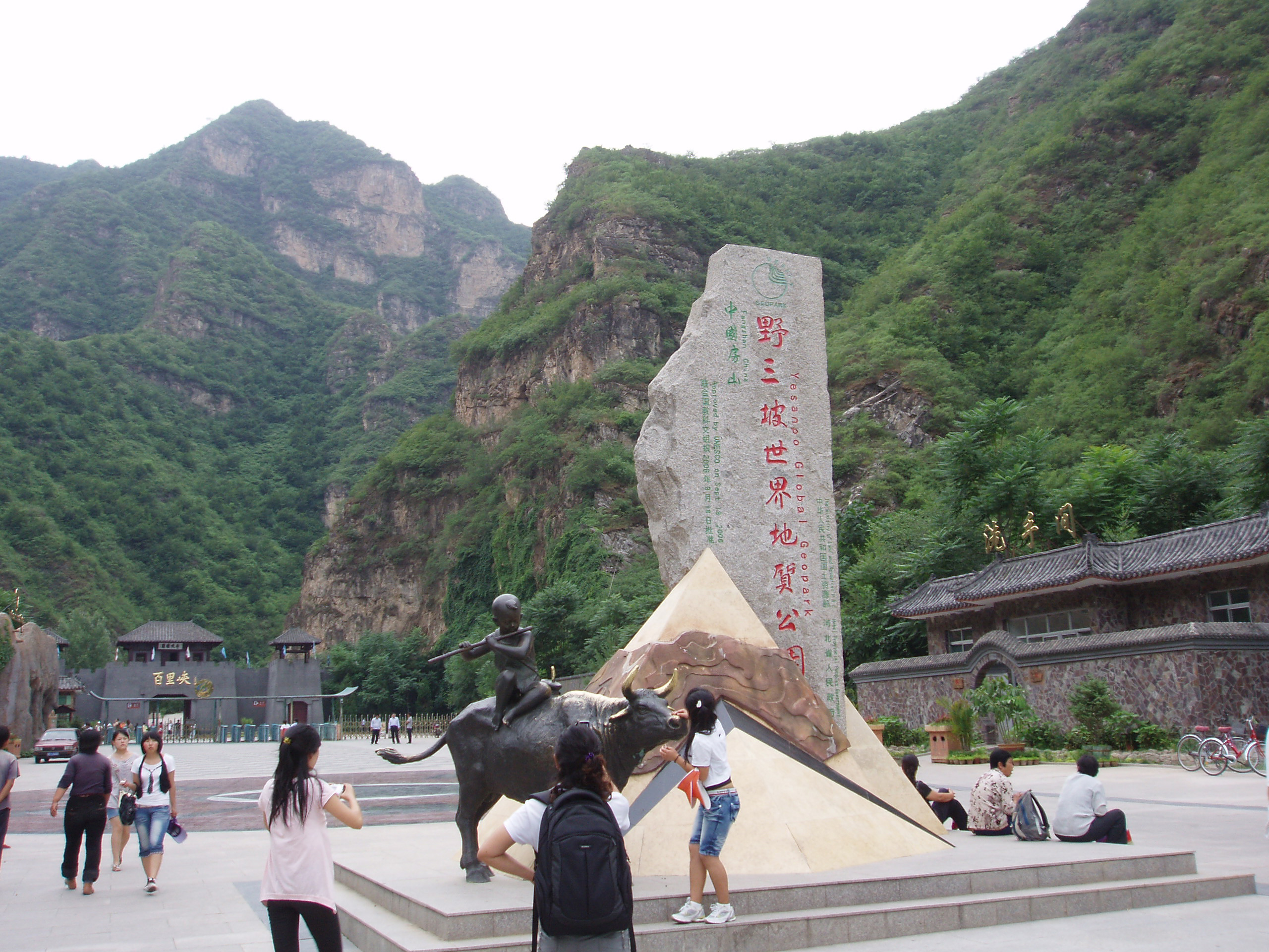 Yesanpuo, the summer resort in Hebei,China, a geopark by UNESCO in 2006.